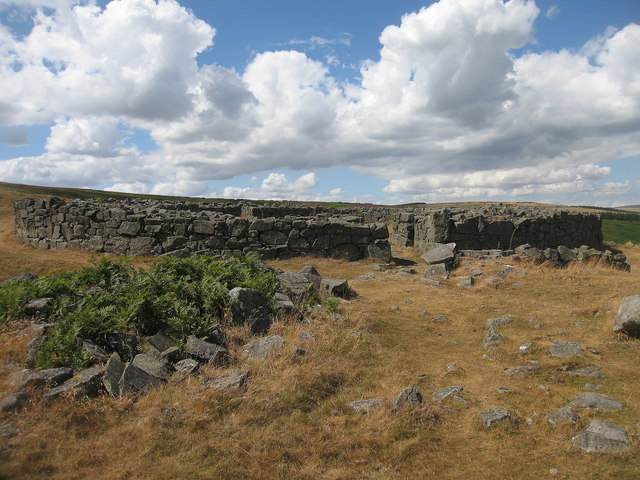 Edin's Hall Broch. Remains of an Iron Age fort near Abbey St. Bathans. View to the south west of the entrance.